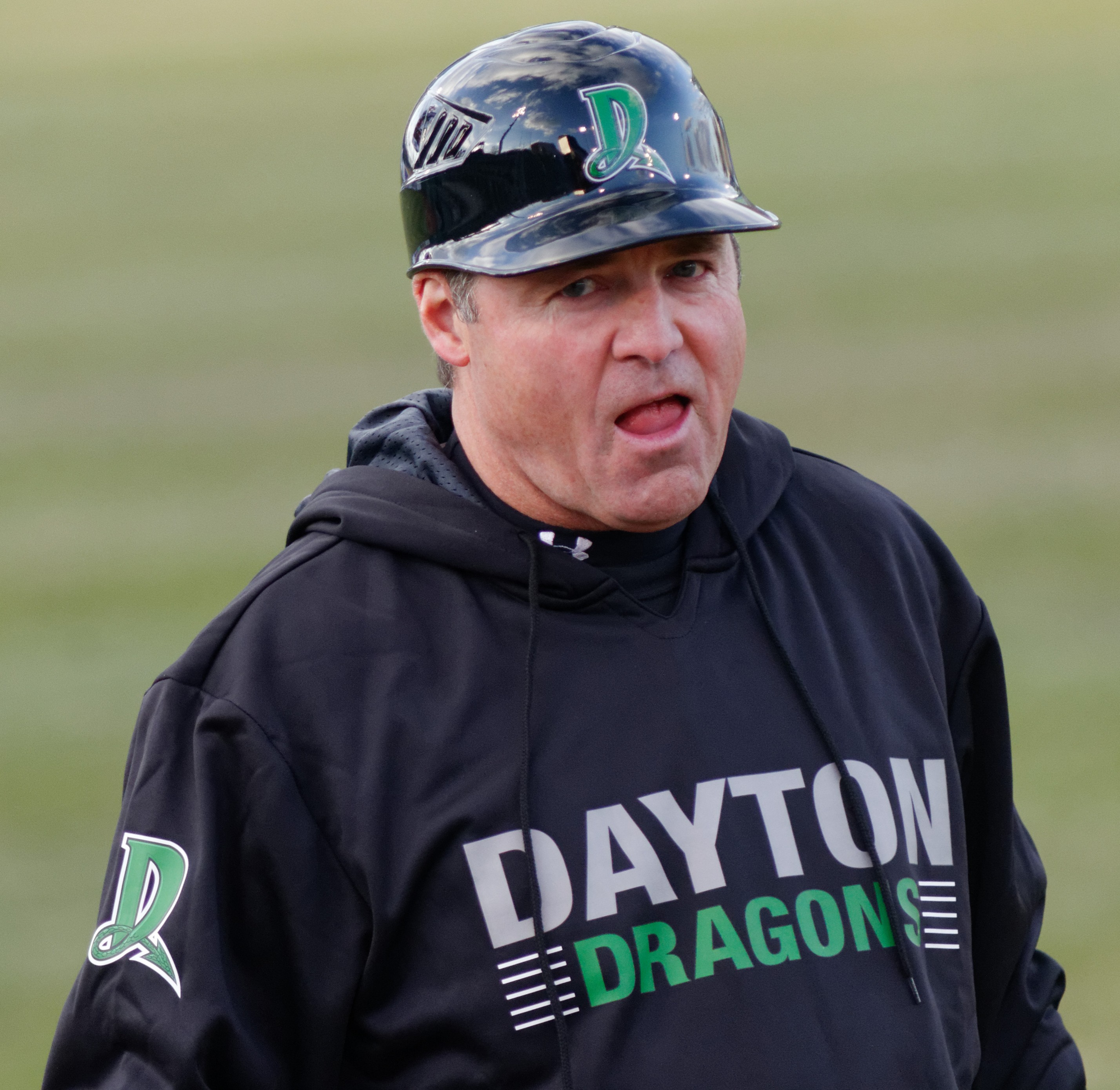 Dick Schofield as a coach with the Dayton Dragons in 2016. Cropped from the original because the Upload Wizard wouldn't accept the original file.